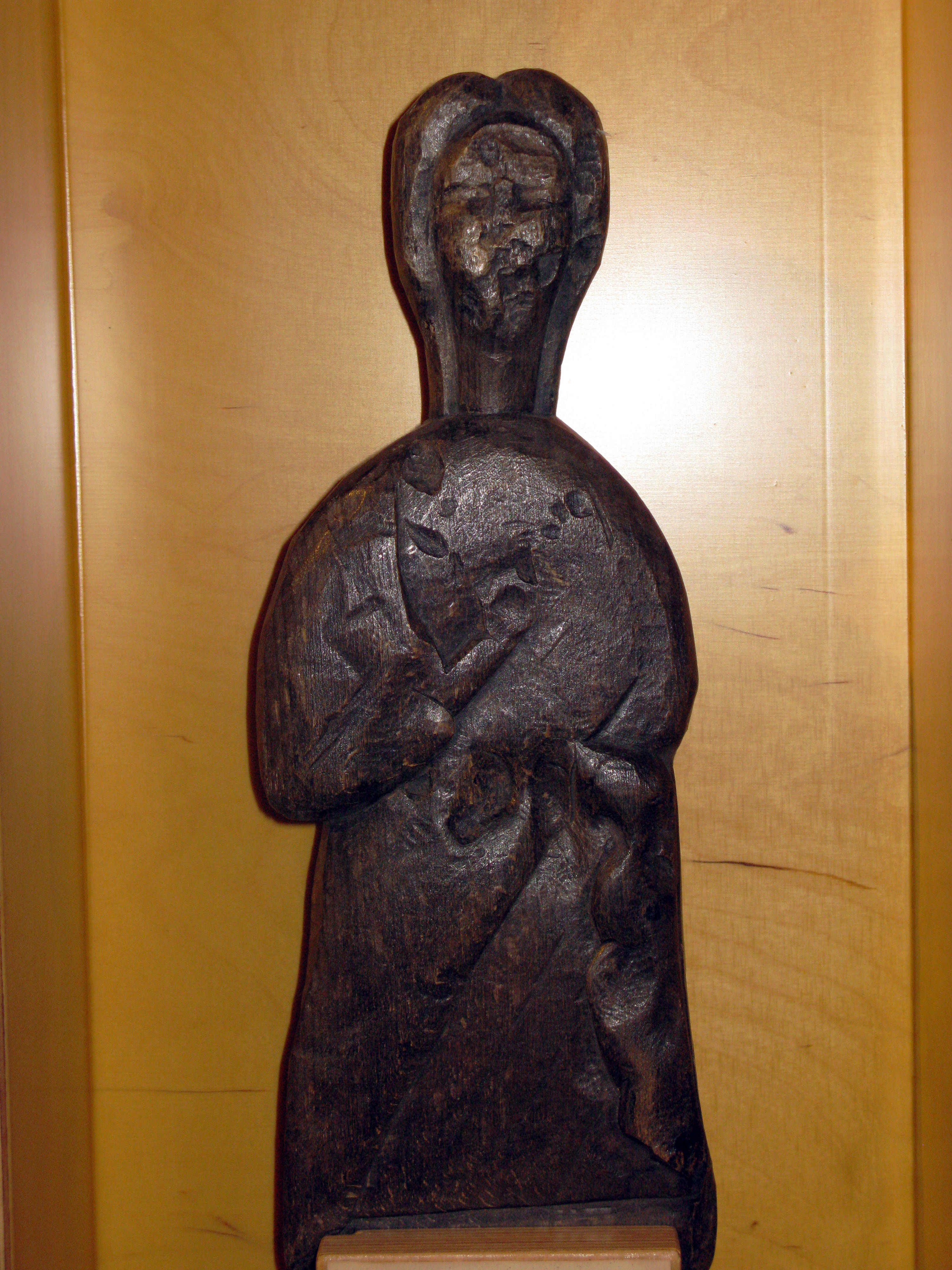 Water-spring goddess Sirona revered at Pforzheim, Germany